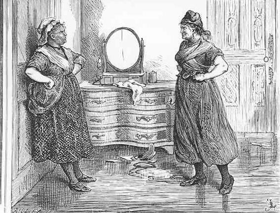 A Tale of Two Cities, Mme Defarge confronts Miss Pross in Lucie's rooms, as yet unaware that the English party have already passed the barrier, by Fred Barnard.